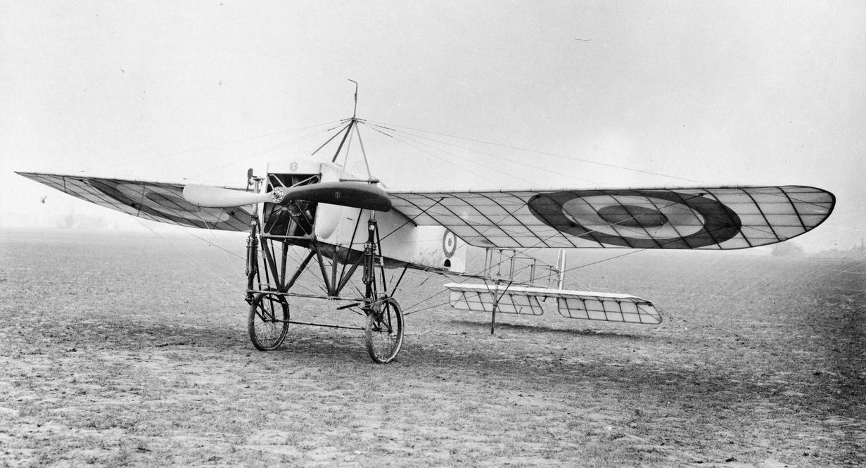 Royal Flying Corps Bleriot in 1914-1916 period.